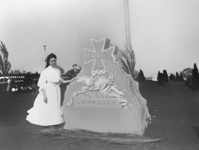 Miss Klotho McGee, daughter of Dr. Anita Newcomb McGee, stands by the Spanish-American War Nurses Memorial in Arlington National Cemetery in Arlington County, Virginia, in the United States on May 2, 1905. The memorial was erected by the Order of Spanish-American War Nurses, a veterans' group for contract nurses who had served in the U.S. Army during the Spanish-American War of 1898. The tall, slender shaft with the eagle atop it behind Miss McGee is the Spanish-American War Memorial.